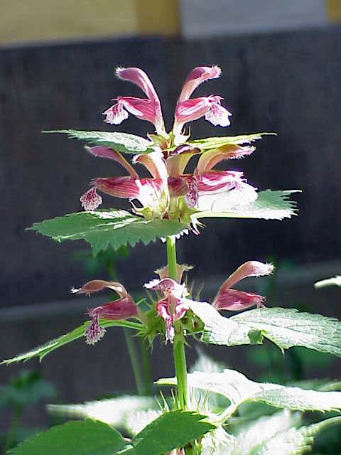 Species: Lamium orvala Family: Lamiaceae Image No. 4